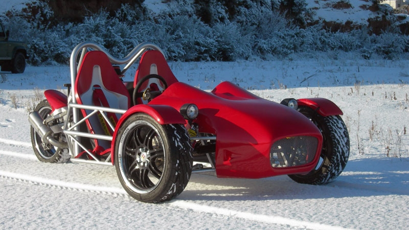 front three-quarter view of MEV tR1ke in snow